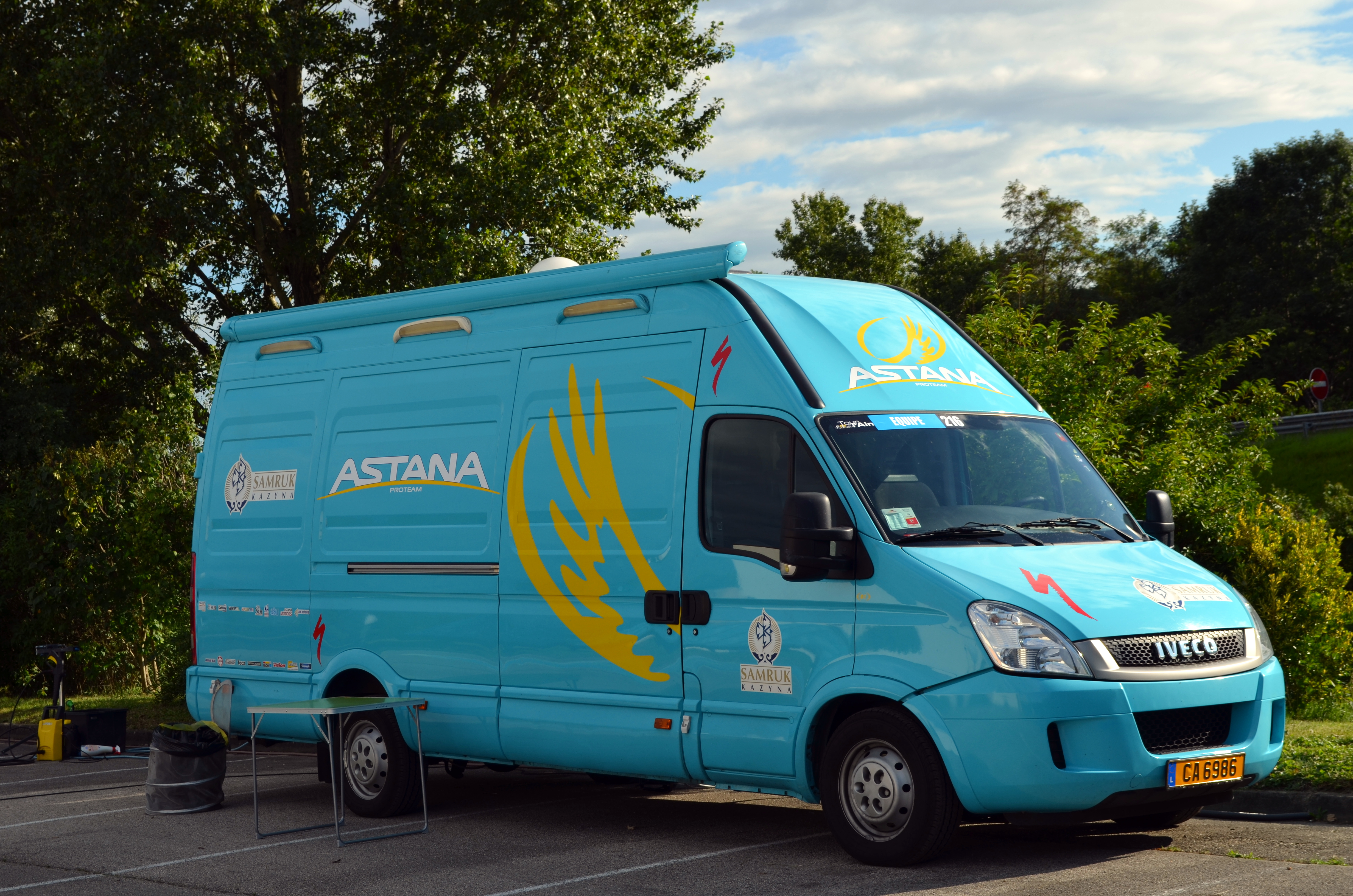 Tour de l'Ain 2014 - Stage 1, evening at hotel.